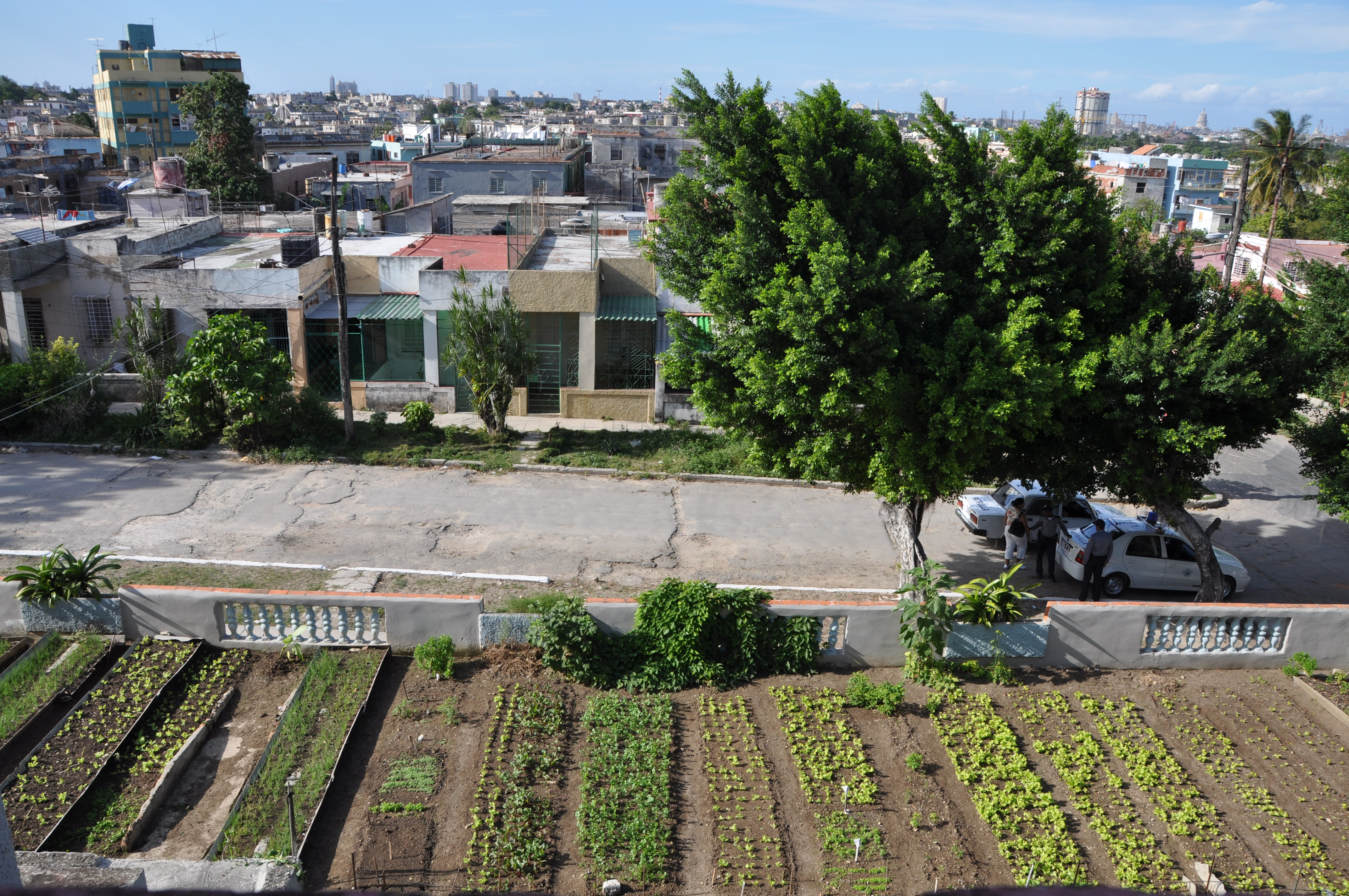 Personal picture taken from the terrace of the police station of the district Municipio 10 de Octubre. We see in the foreground part of the vegetable garden which makes the complete tour of the police station. It has its own cafeteria and all the fruits and vegetables that are served are produced locally. This photo was taken during the winter of 2009-2010, which was a very cold winter for Cuba (about 8 degrees at sea level during the coolest nights).